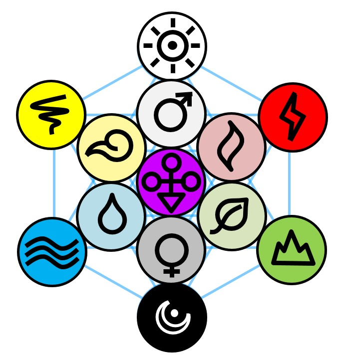 Elemental Sigils